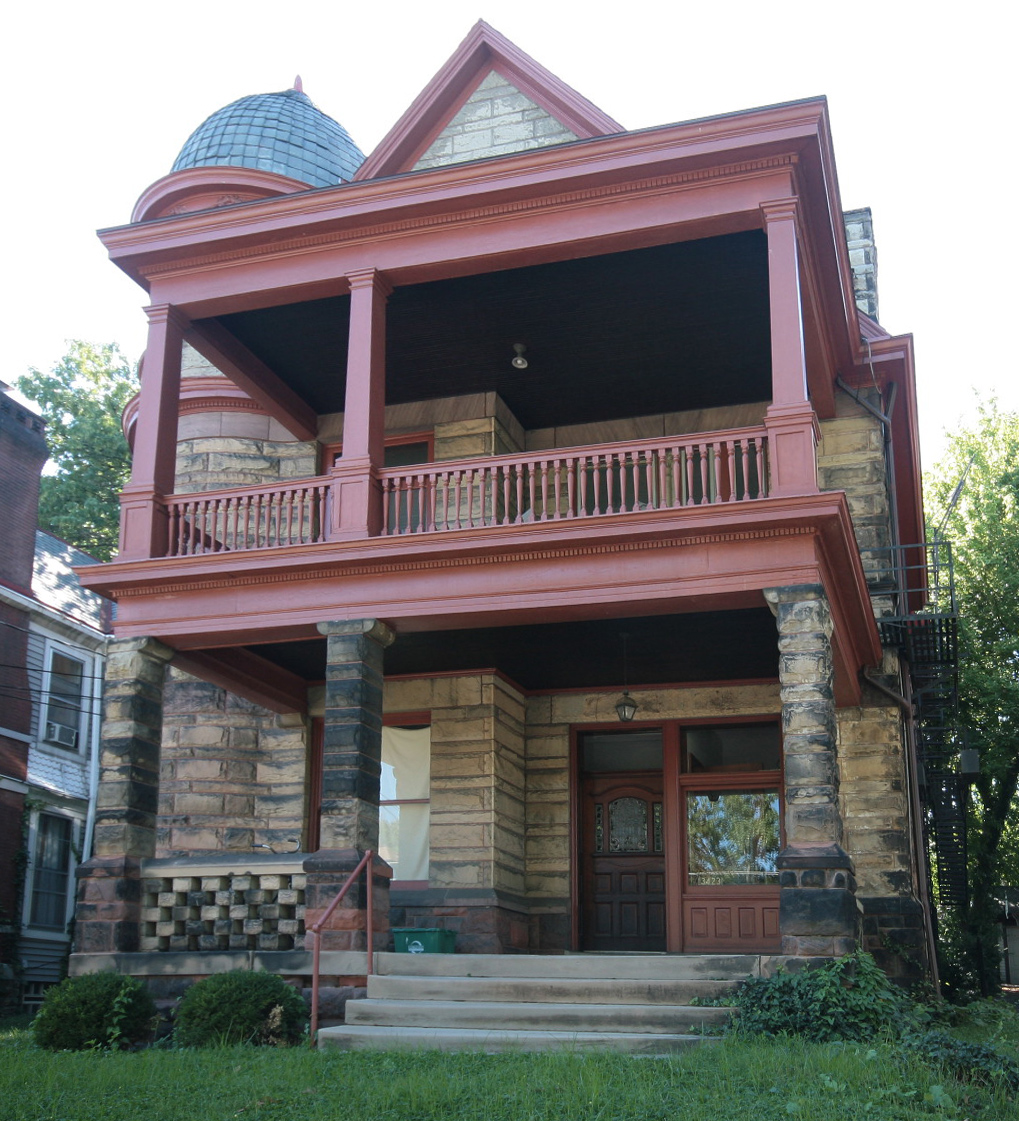 George Hummel House in Cincinnati Photo by Greg Hume.